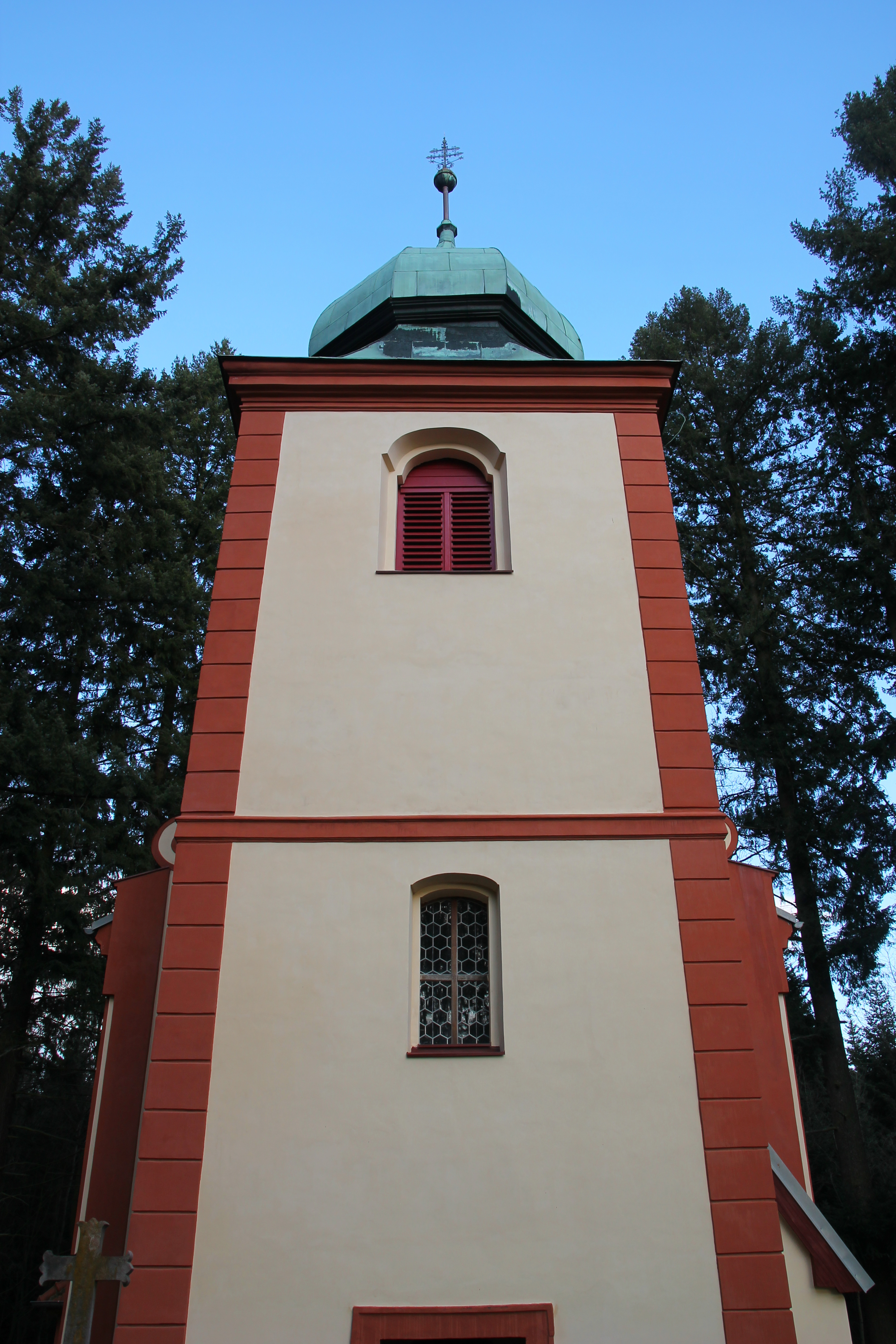 Aldašín